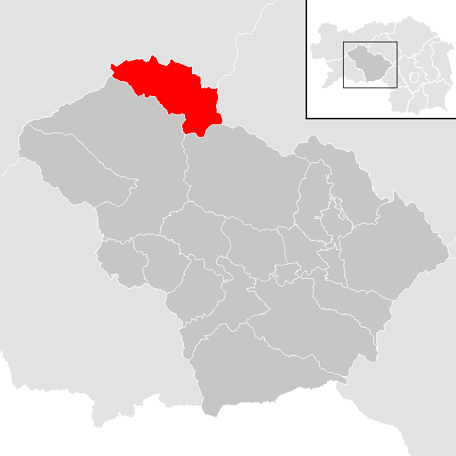 district Murtal in Styria, Austria